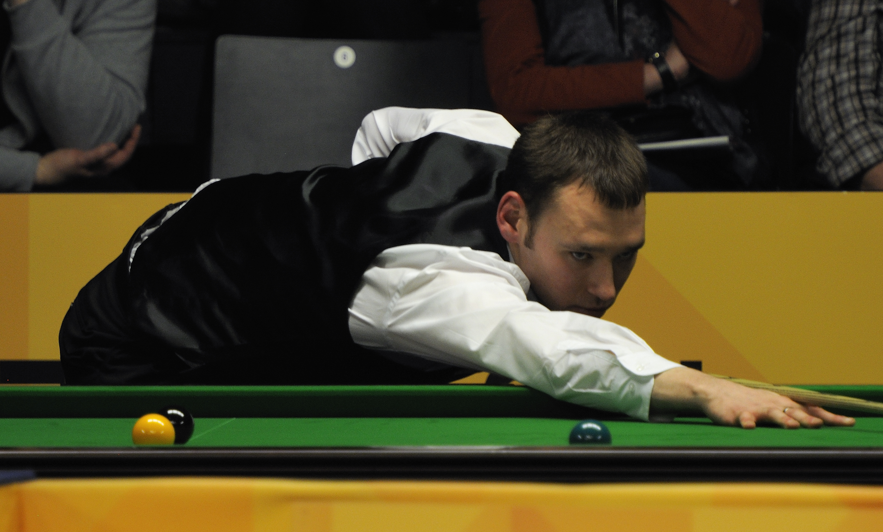 Picture taken in Berlin during the Snooker German Masters in 2013. Fraser Patrick.